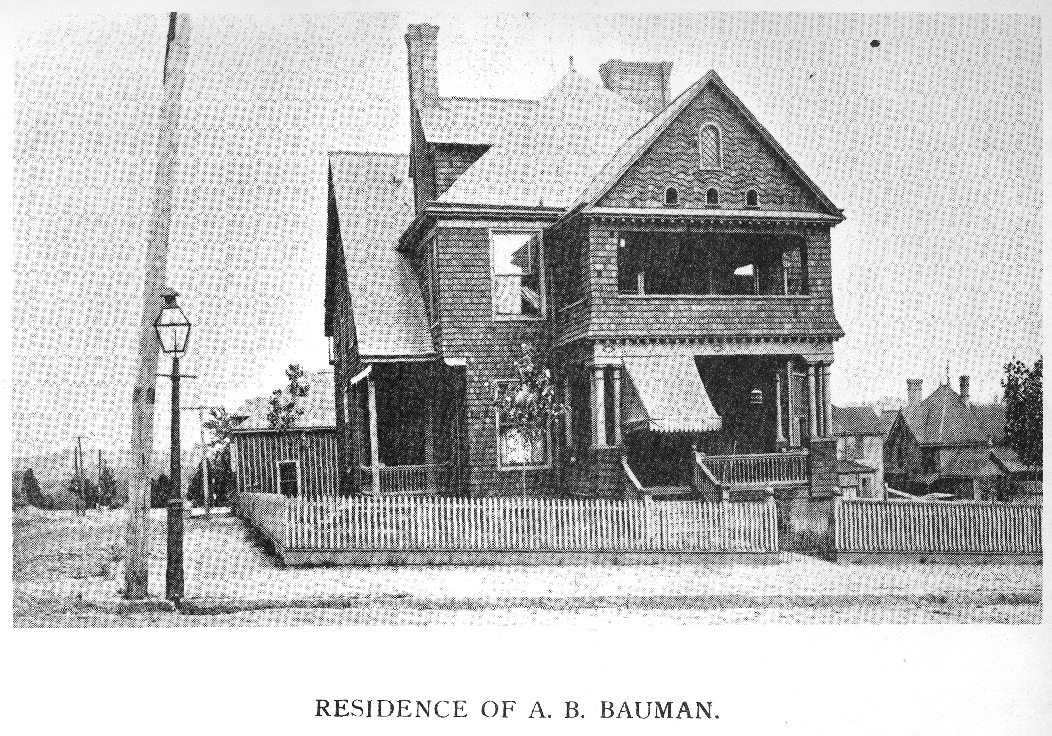 ca. 1895